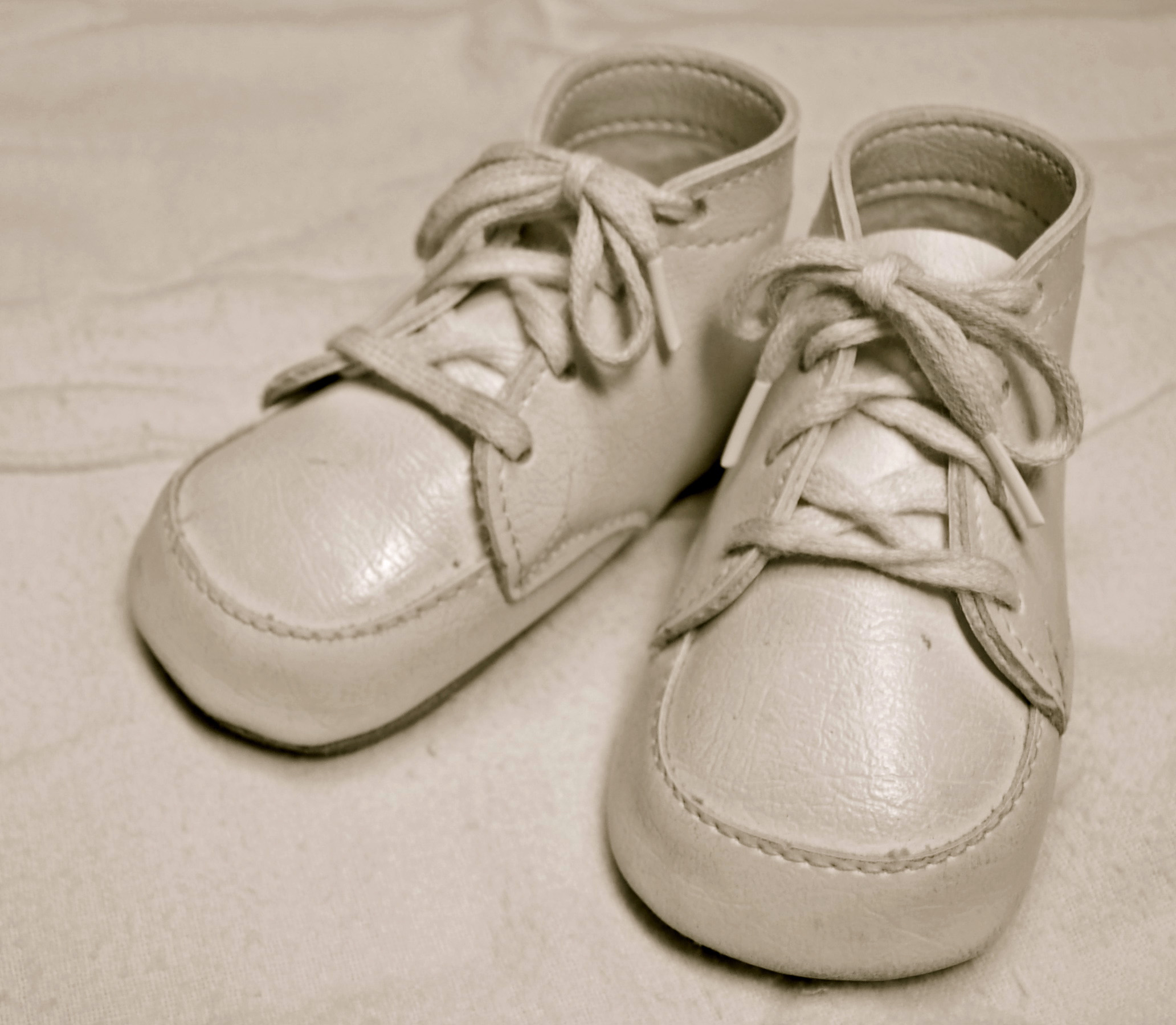 The year 1970 was a good one for me. First, I was born. And then (as if that wasn't good enough) I also got these great shoes and a cuddly blanket! Good times, good times. Submitted to the Flickr group 7 Days of Shooting.